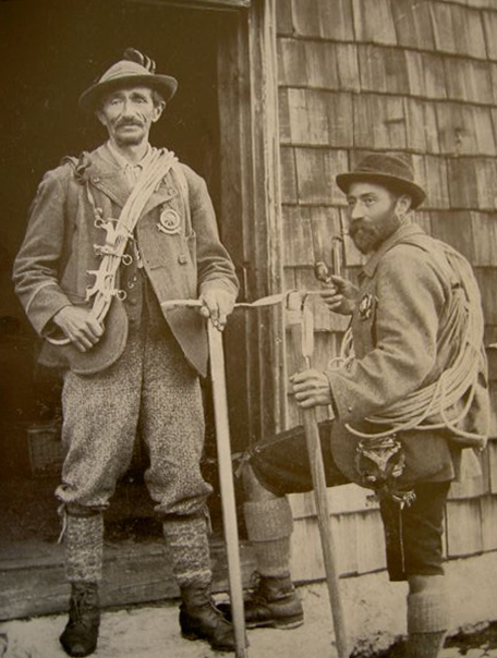 The austrian mountaineers and guides Anselm Klotz (on the left) and Josef Frey (on the right), who climbed Freispitze the first time.